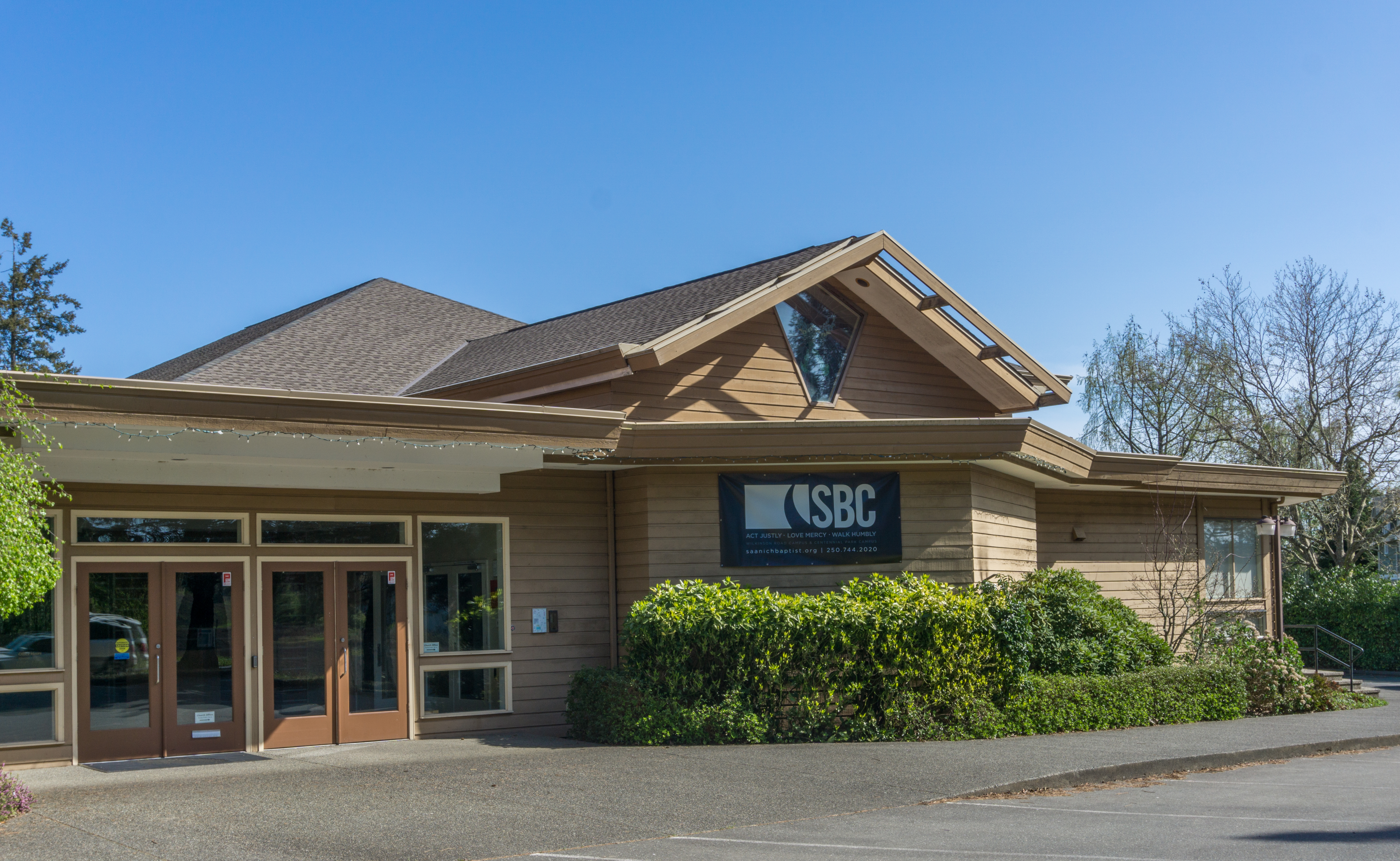 Saanich Baptist Church, Canada